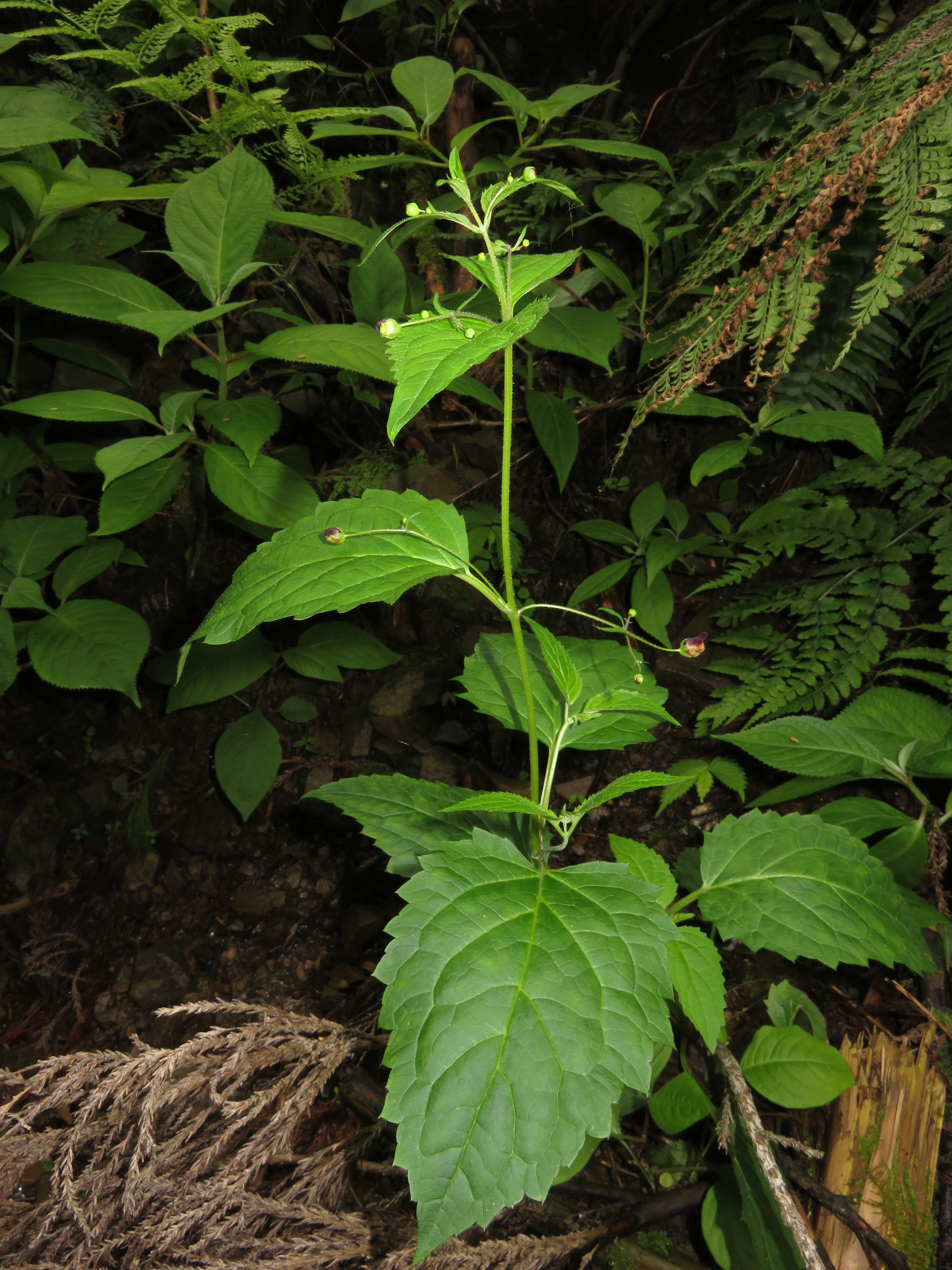 Scrophularia musashiensis, South area, Tochigi pref., Japan